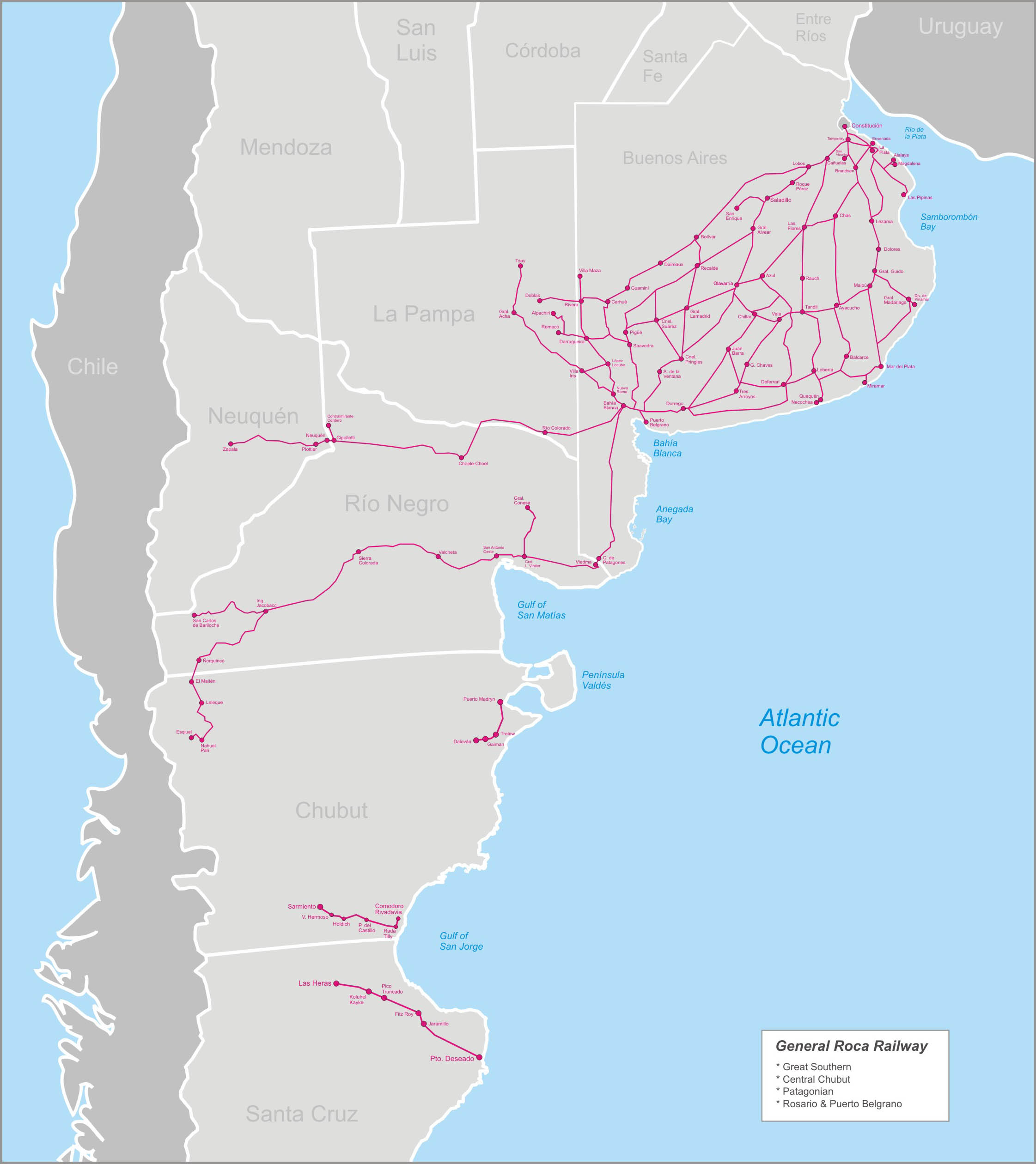 The complete General Roca Railway network, including former Great Southern, Chubut Central, Patagonian and Rosario & Puerto Belgrano Railways.